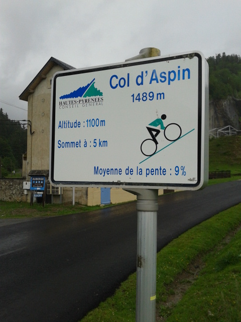 2015 Mountain pass cycling milestone at the Col d Aspin in France ascending from Sainte Marie de Campan